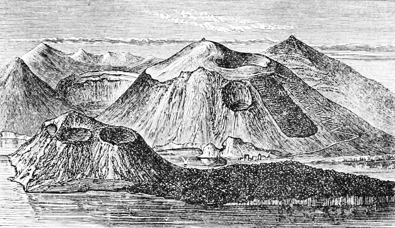 View of the volcanoes of Vulcano, with the peninsula Vulcanello in the foreground, taken from the south end of the island of Lipari